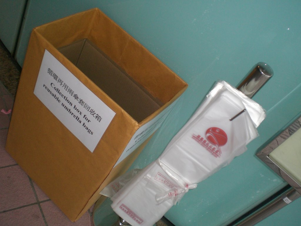 香港中央圖書館 Hong Kong Central Library Author= RoxRox